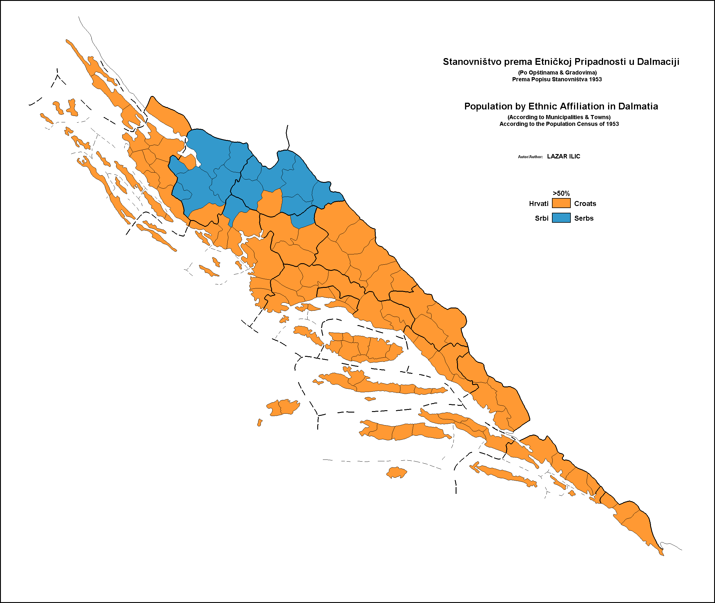 This is an ethnic map of Dalmatia, according to the 1953 population census.